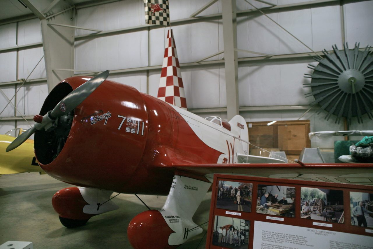 The R-1 was built in Springfield, Mass. and originally flown by Jimmie Doolittle. It set a new world speed record of 296 mph and went on a few days later to win the 1932 Thompson Trophy Race. The Granvilles donated their plans to the museum stating that they would be flattered if we saw fit to replicate their airplane, but stipulated that we never fly it and never loan the plans to anyone who wanted to build a flying replica.